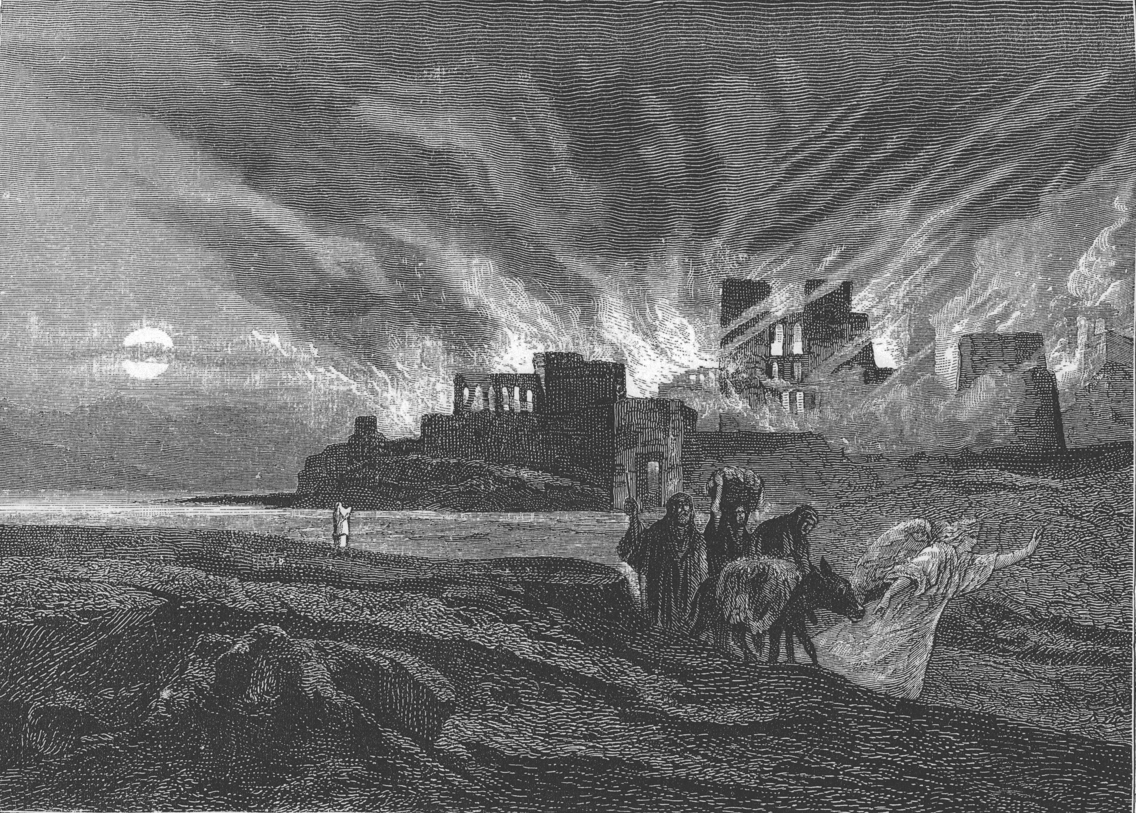 Burning of Sodoma